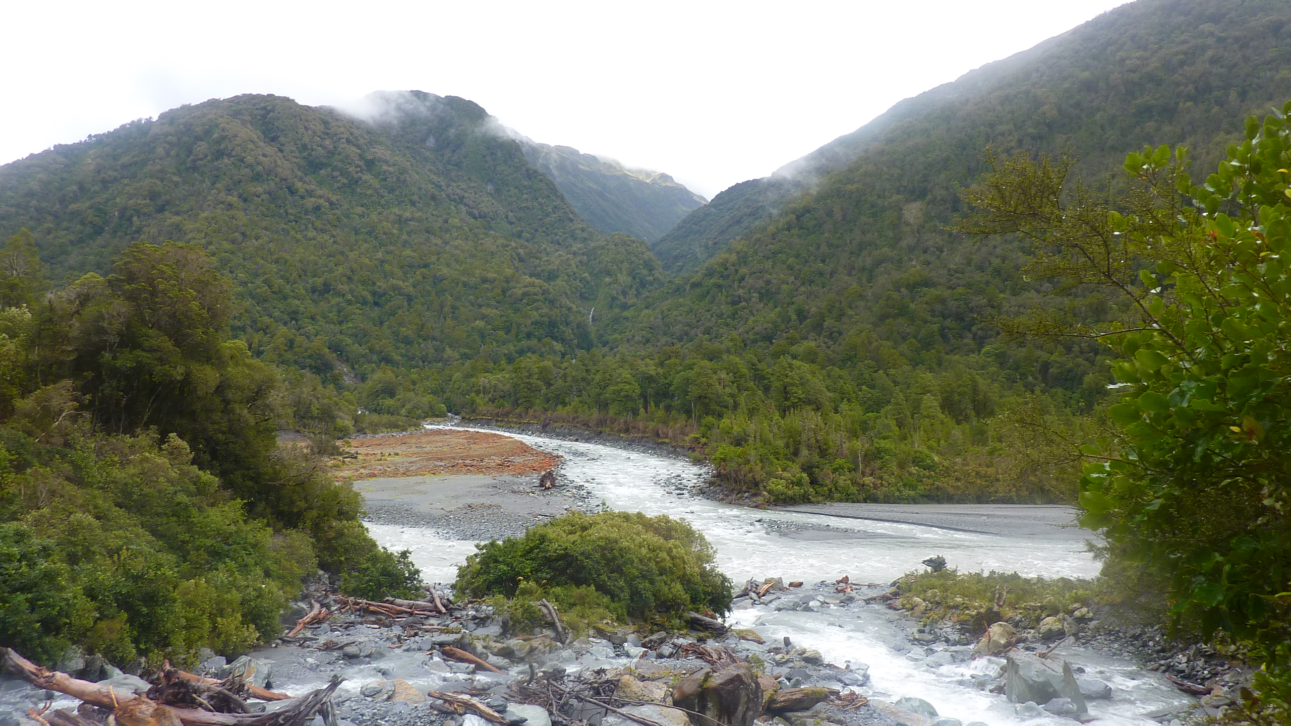 Cropp River ( flowing from background to Whitcombe ) meets the Whitcombe river (flowing left to right in foreground)